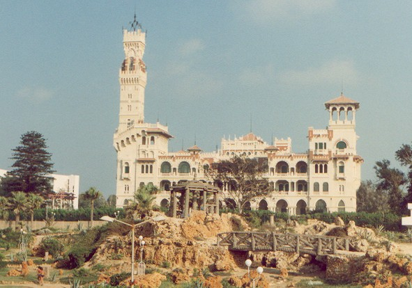 A seaside view of the Montaza Palace in Alexandria.